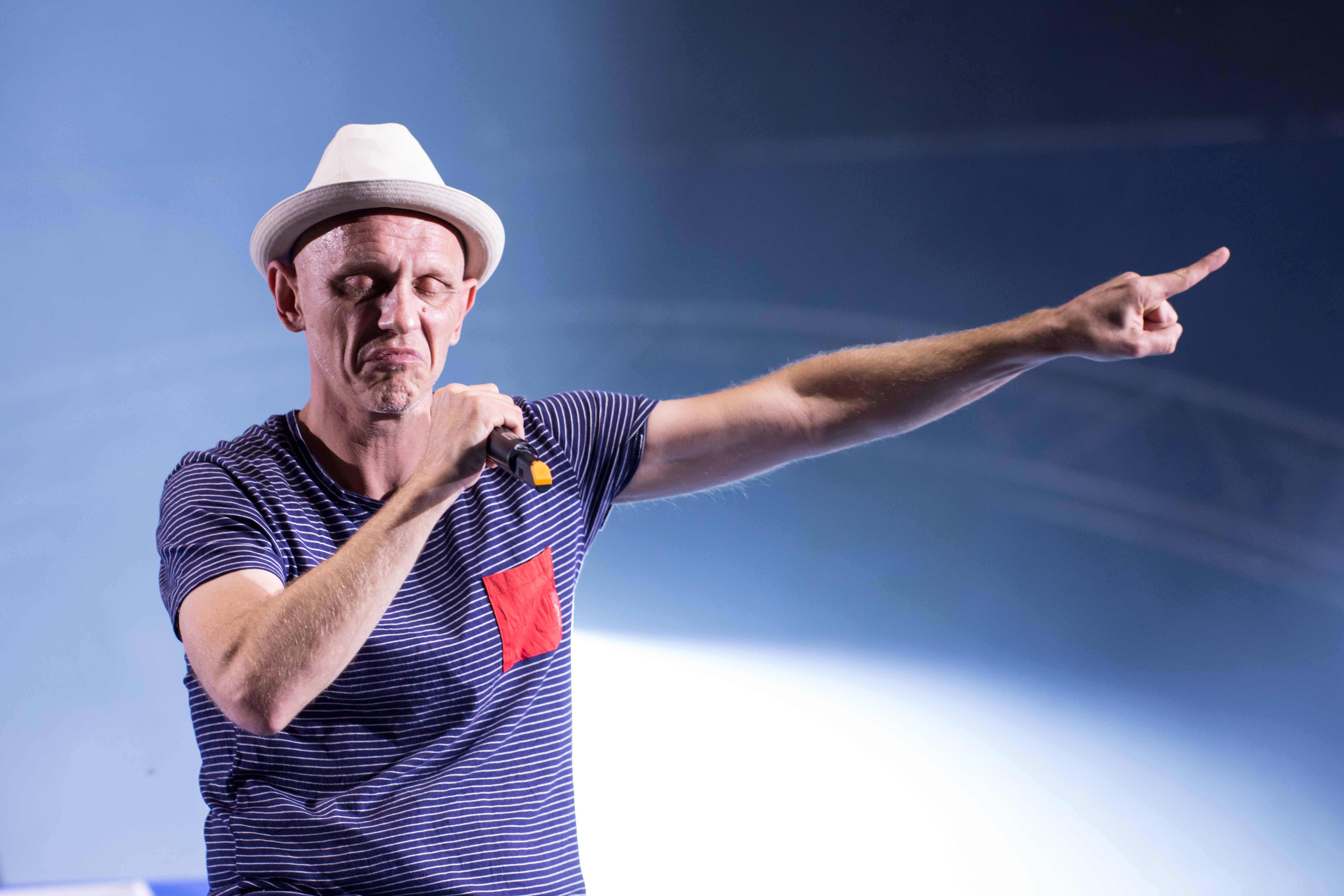 Massilia Sound System (France) at Rio Loco 2015